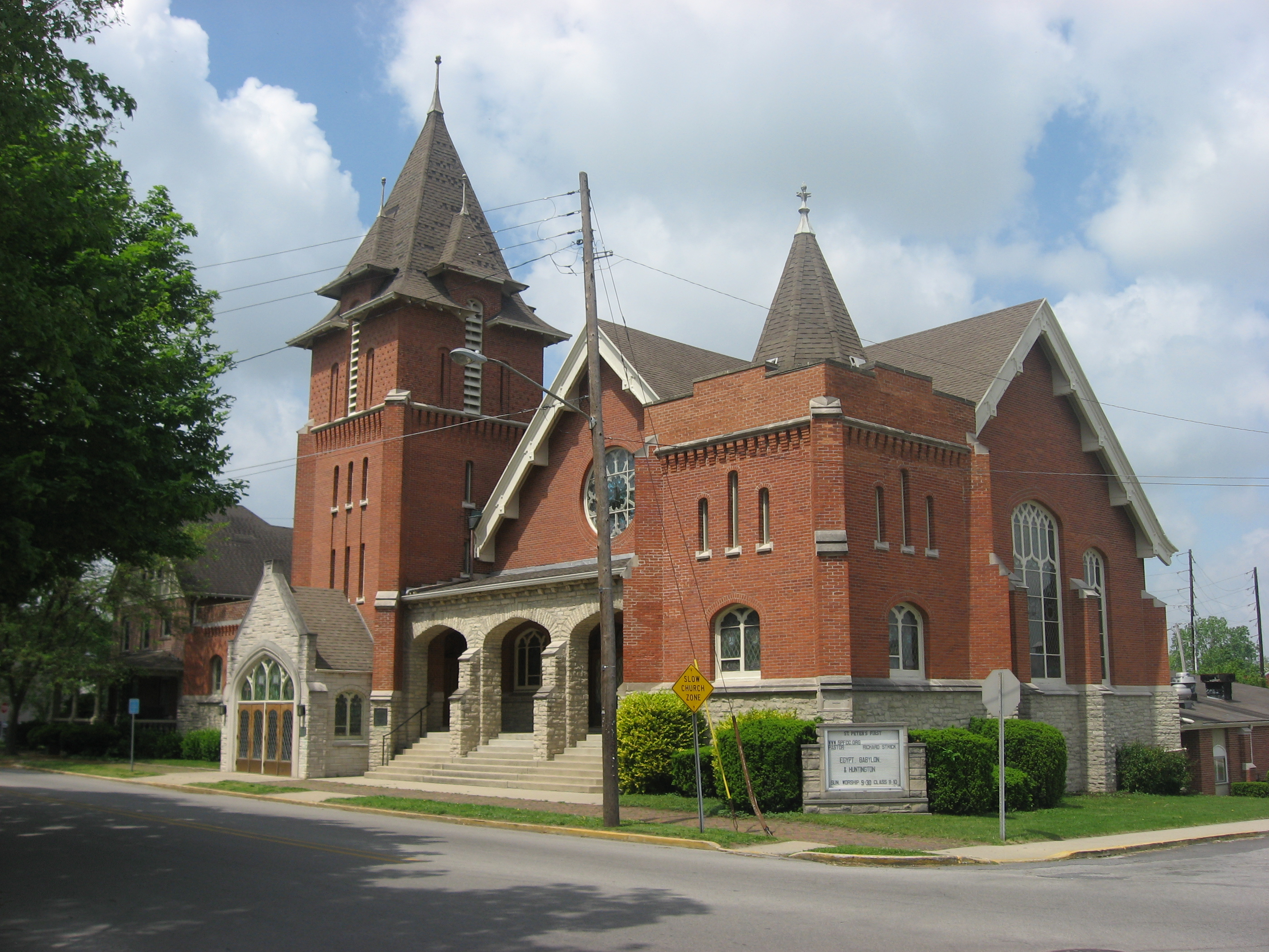 Front and eastern side of St. Peter's First Community Church (formerly St. Peter's United Church of Christ), located at 202 Etna Avenue in Huntington, Indiana, United States. Built in 1903, it is listed on the National Register of Historic Places under its old name of "German Reformed Church", and it is part of a Register-listed historic district, the Drover Town Historic District.